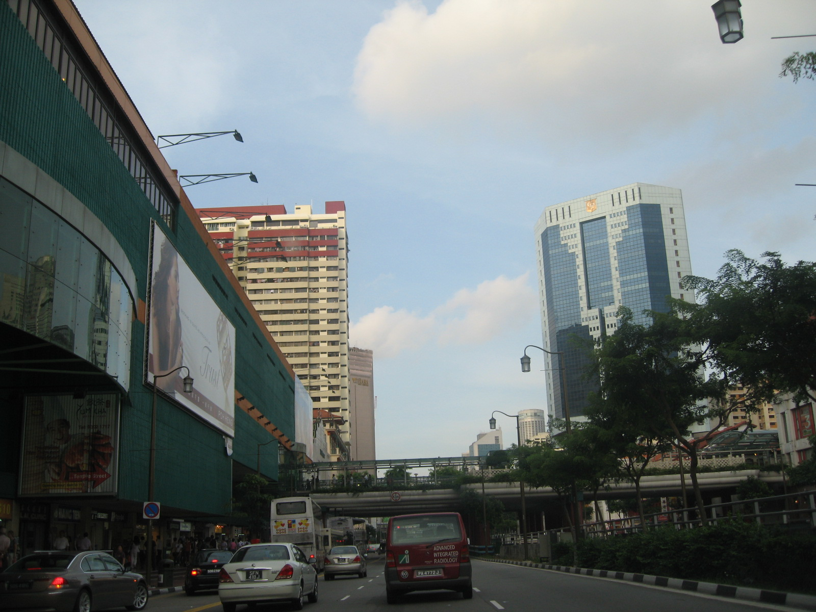 Eu Tong Sen Street.